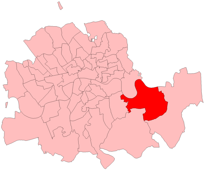 A map of Greenwich constituency within the Metropolitan Board of Works area, as it existed from 1885 to 1918.